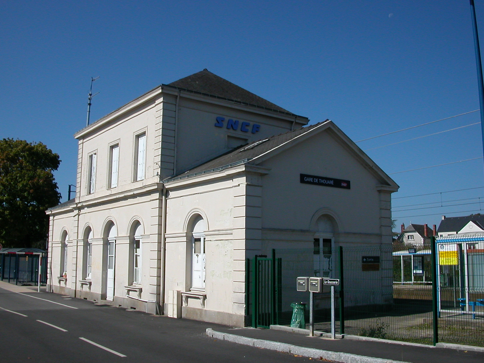 Train station of Thouaré-sur-Loire